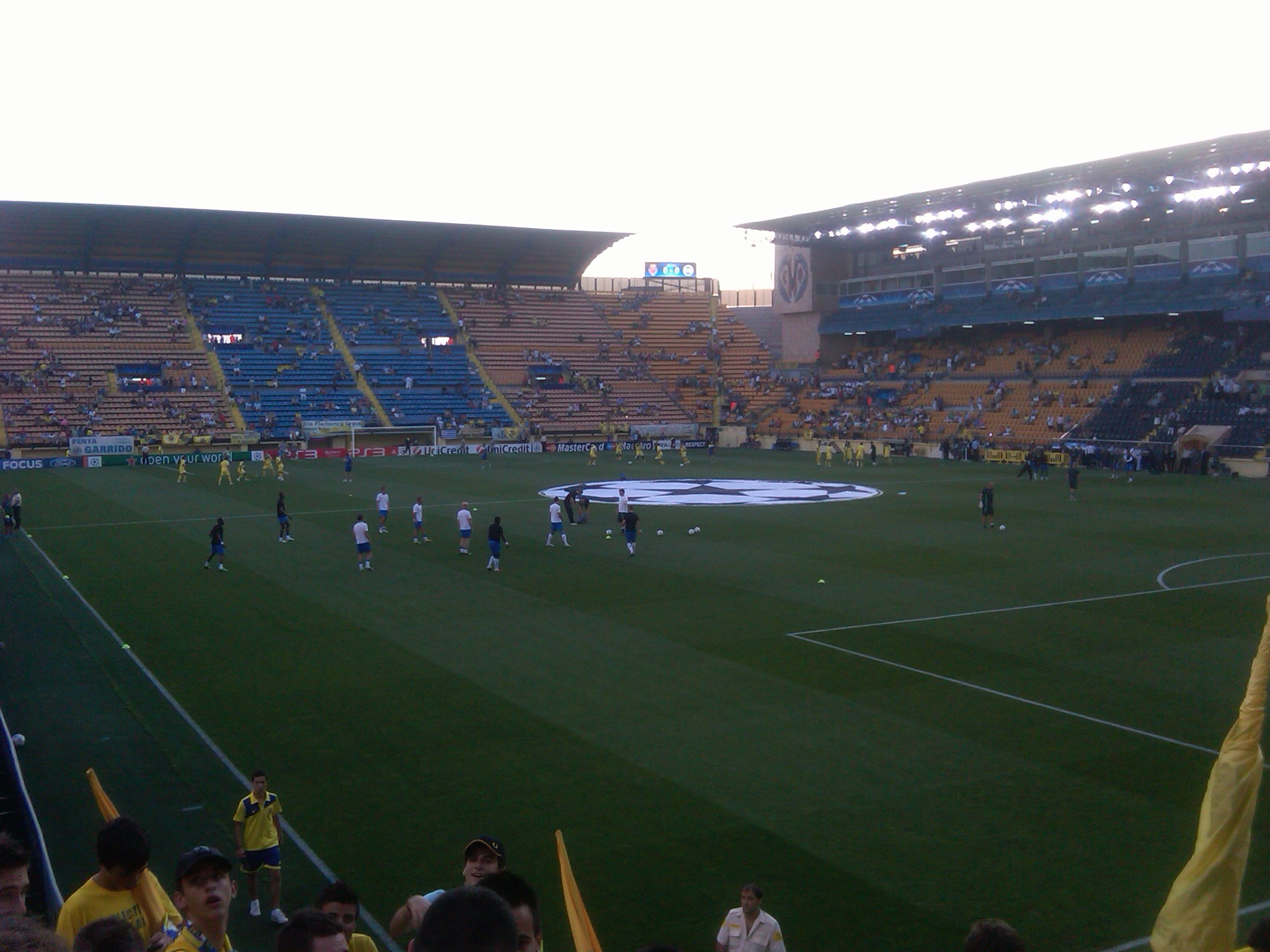 El Madrigal Stadium, Villarreal.